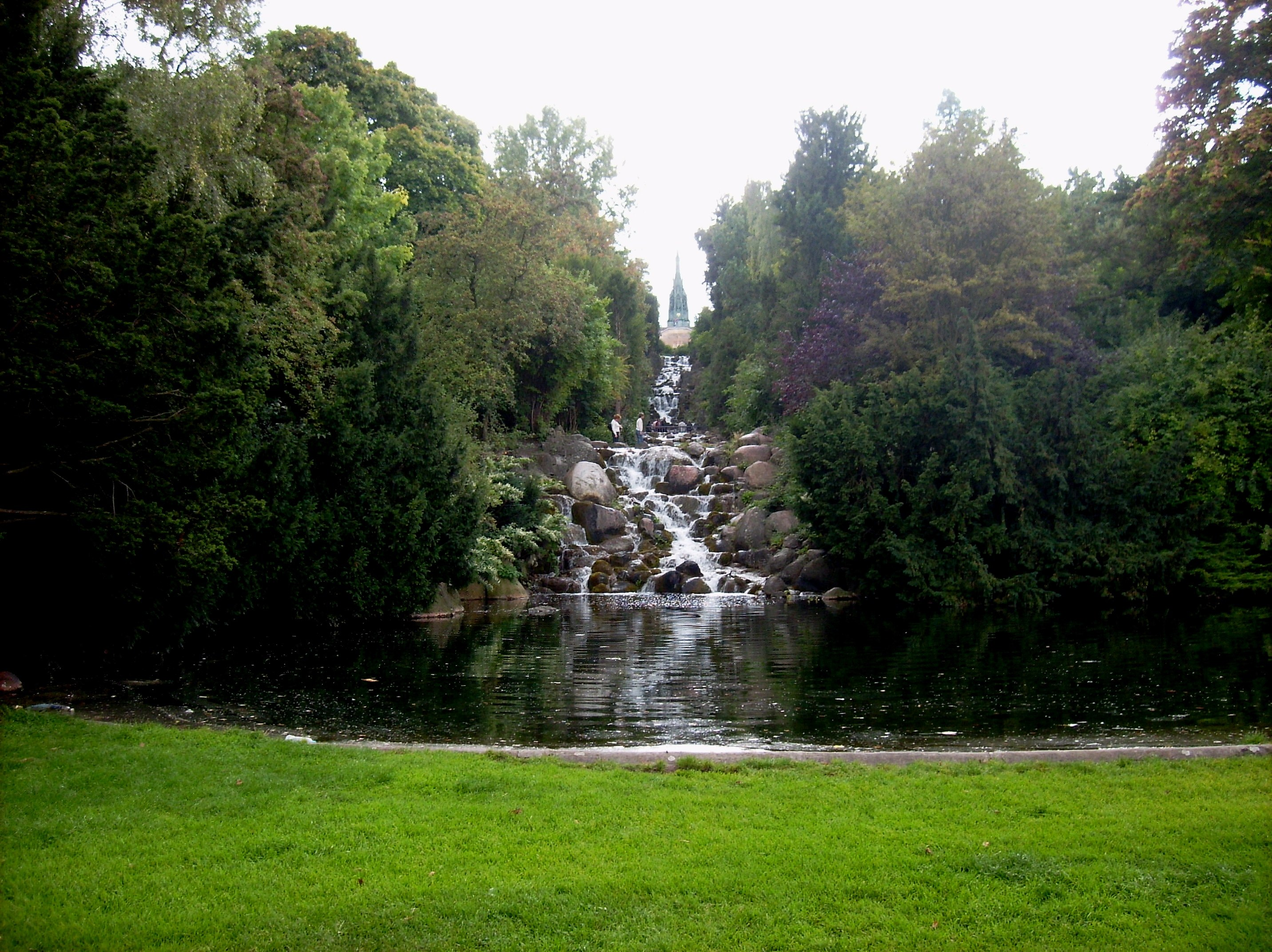 Cascade in Viktoriapark in Berlin-Kreuzberg